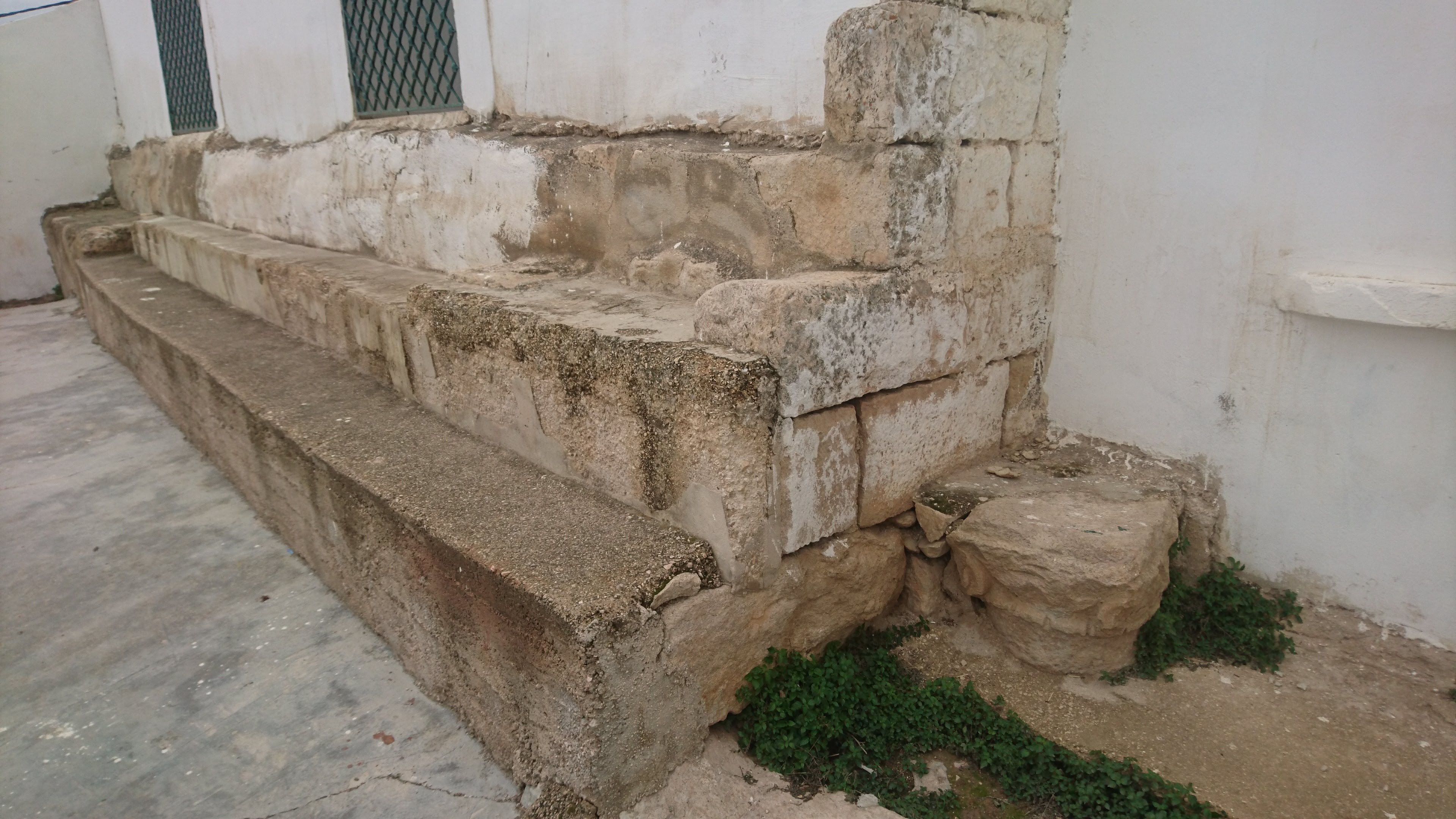 Zoubia Old Mosque in Zoubia, Irbid, Jordan